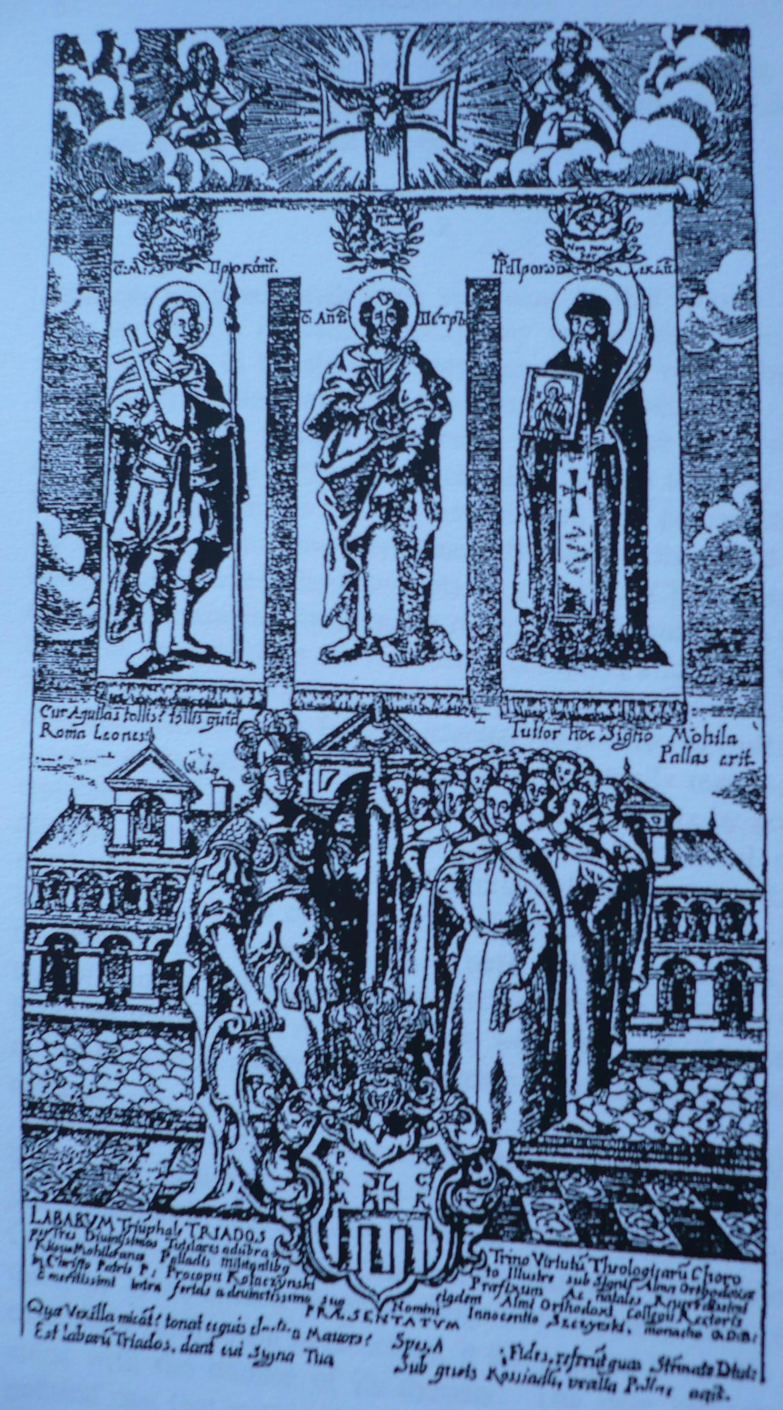 Emblematic sheet dedicated to the rector of the Kyiv-Mohyla Academy P. Kolachynkyi